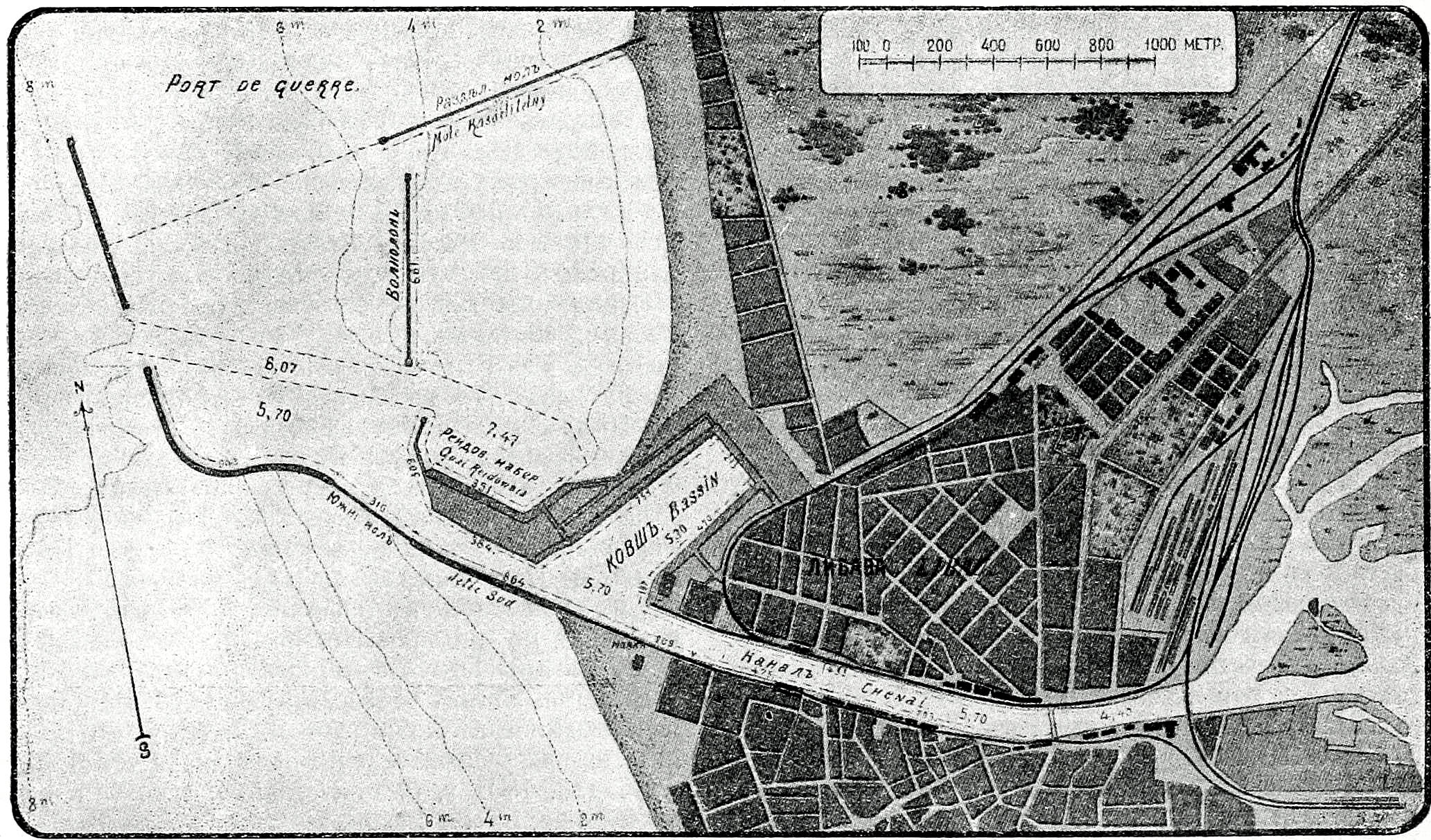 Old map of Liepāja